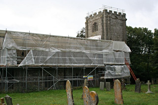 St Wenn Church. This church is undergoing restoration work. The tower used to be about one third higher than it is. The top section was destroyed by lightning in 1663.